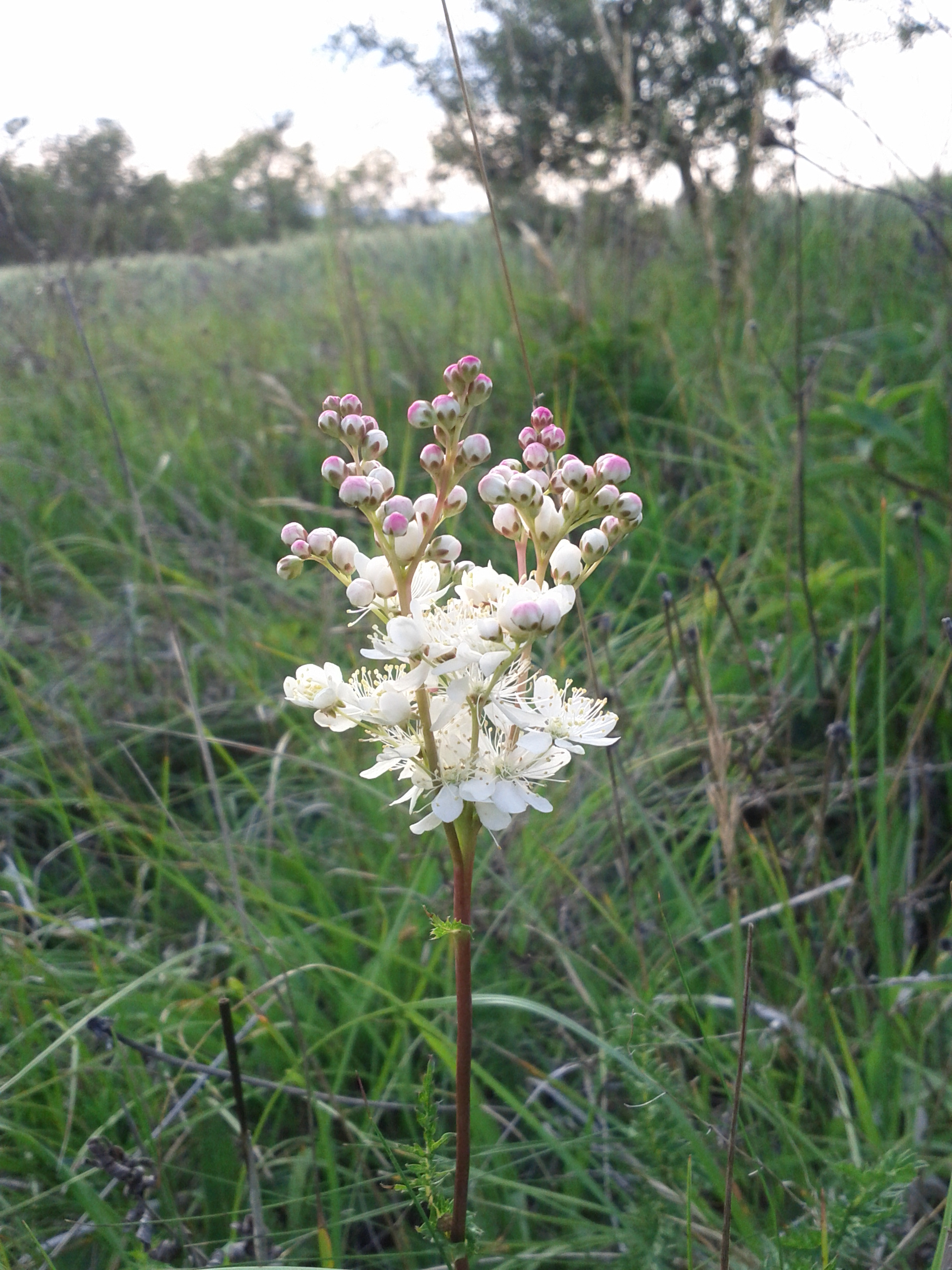 Inflorescence Taxonym: Filipendula vulgaris ss Fischer et al. EfÖLS 2008 ISBN 978-3-85474-187-9 Location: Steinberg near Niederhollabrunn, district Korneuburg, Lower Austria - ca. 375 m a.s.l. Habitat: poor grassland